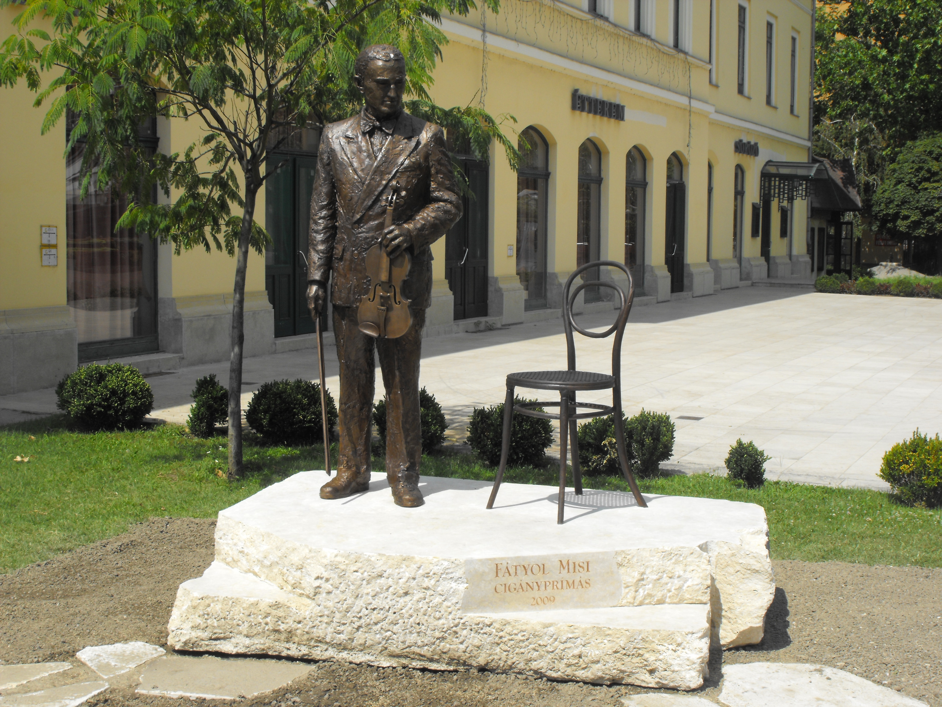 Statue of Mihály Fátyol, Hungarian-born bandleader and composer belonging to the Romani people in Makó, Hungary.